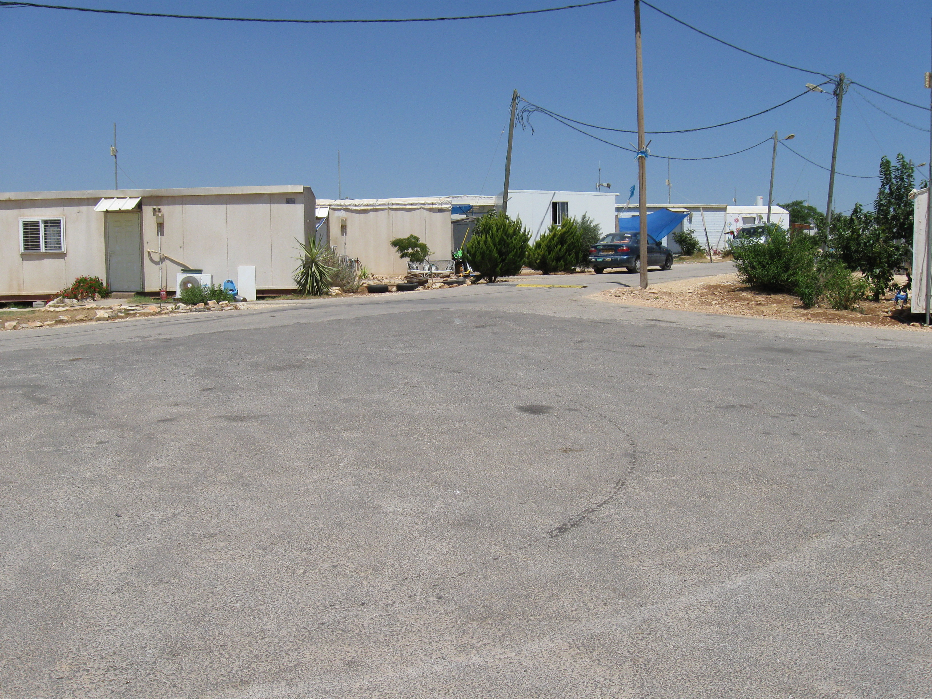 Migron_Panorama